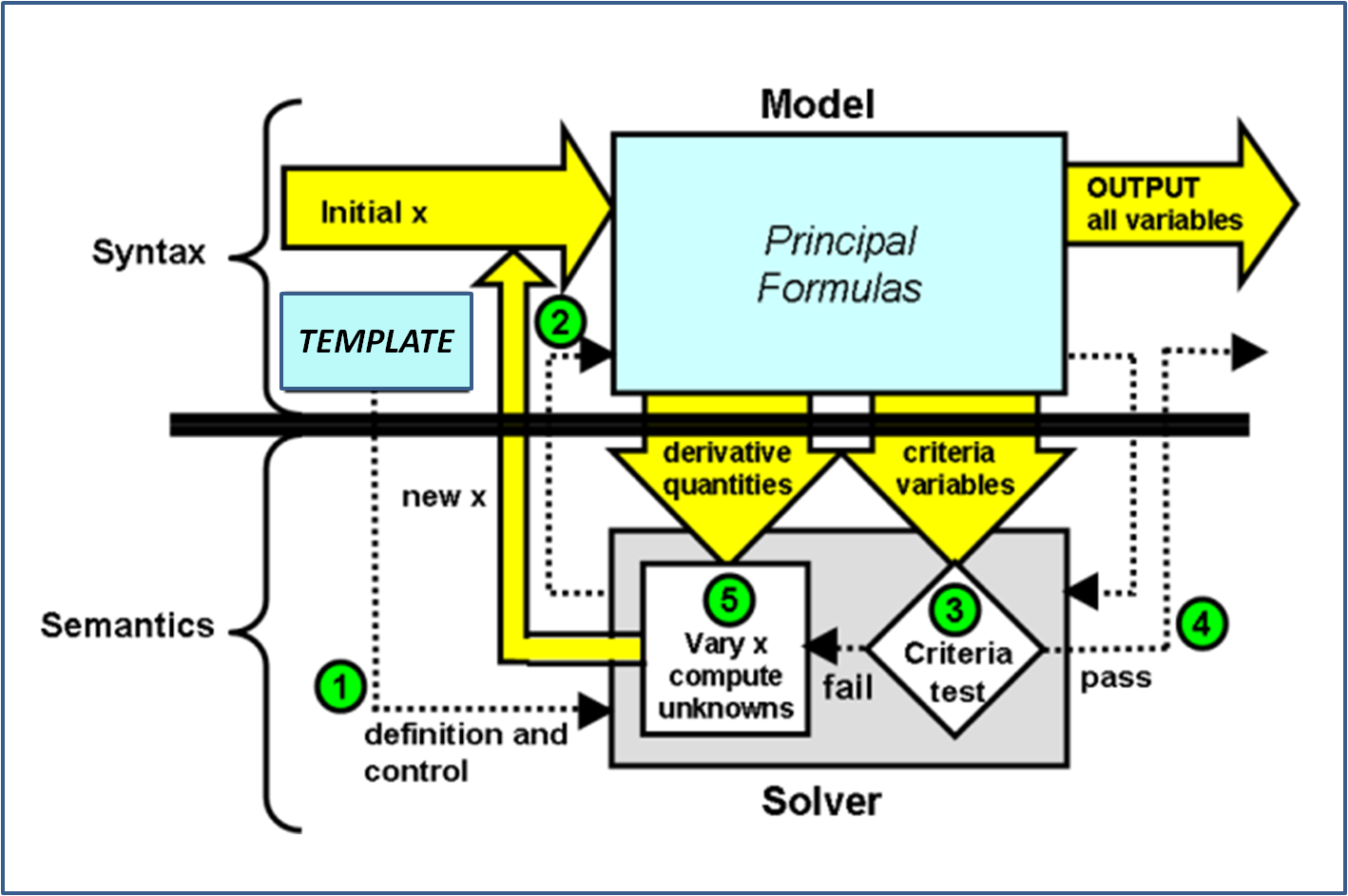 This is a generalized syntax/semantics profile of an iterative MetaCalculus holon process.